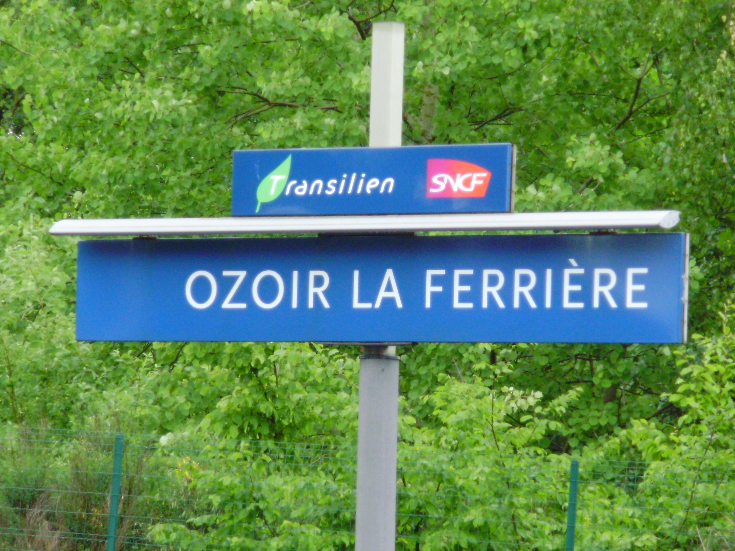 Ozoir-la-Ferrière station, Seine-et-Marne, France